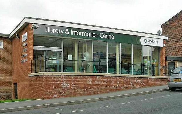 Library & Information Centre - Market Street, Birstall